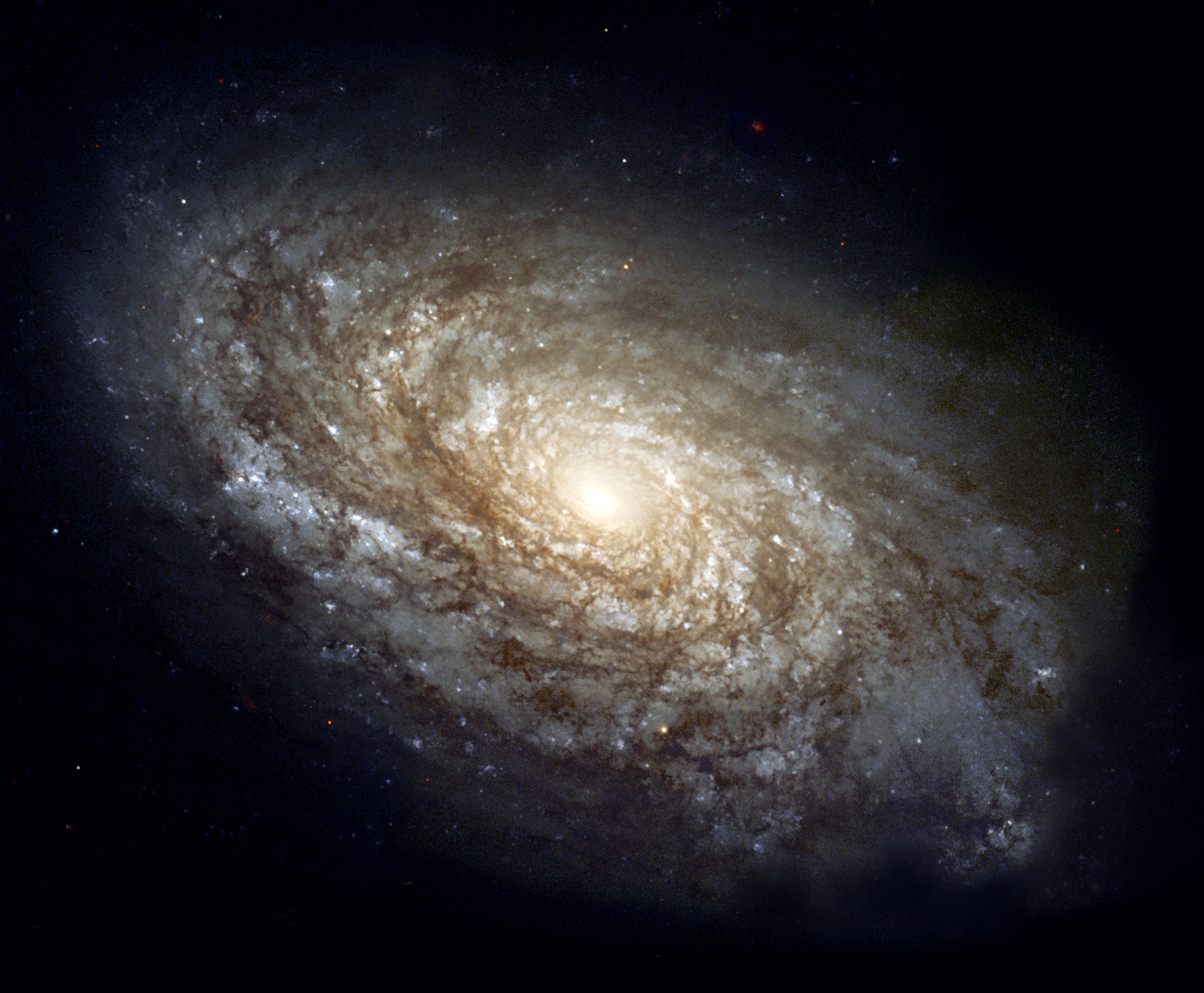 In 1995, the majestic spiral galaxy NGC 4414 was imaged by the Hubble Space Telescope as part of the HST Key Project on the Extragalactic Distance Scale. An international team of astronomers, led by Dr. Wendy Freedman of the Observatories of the Carnegie Institution of Washington, observed this galaxy on 13 different occasions over the course of two months. Images were obtained with Hubble's Wide Field Planetary Camera 2 (WFPC2) through three different color filters. Based on their discovery and careful brightness measurements of variable stars in NGC 4414, the Key Project astronomers were able to make an accurate determination of the distance to the galaxy. The resulting distance to NGC 4414, 19.1 megaparsecs or about 60 million light-years, along with similarly determined distances to other nearby galaxies, contributes to astronomers' overall knowledge of the rate of expansion of the universe. In 1999, the Hubble Heritage Team revisited NGC 4414 and completed its portrait by observing the other half with the same filters as were used in 1995. The end result is a stunning full-color look at the entire dusty spiral galaxy. The new Hubble picture shows that the central regions of this galaxy, as is typical of most spirals, contain primarily older, yellow and red stars. The outer spiral arms are considerably bluer due to ongoing formation of young, blue stars, the brightest of which can be seen individually at the high resolution provided by the Hubble camera. The arms are also very rich in clouds of interstellar dust, seen as dark patches and streaks silhouetted against the starlight. ID: GPN-2000-000933 Other ID: PR99-25